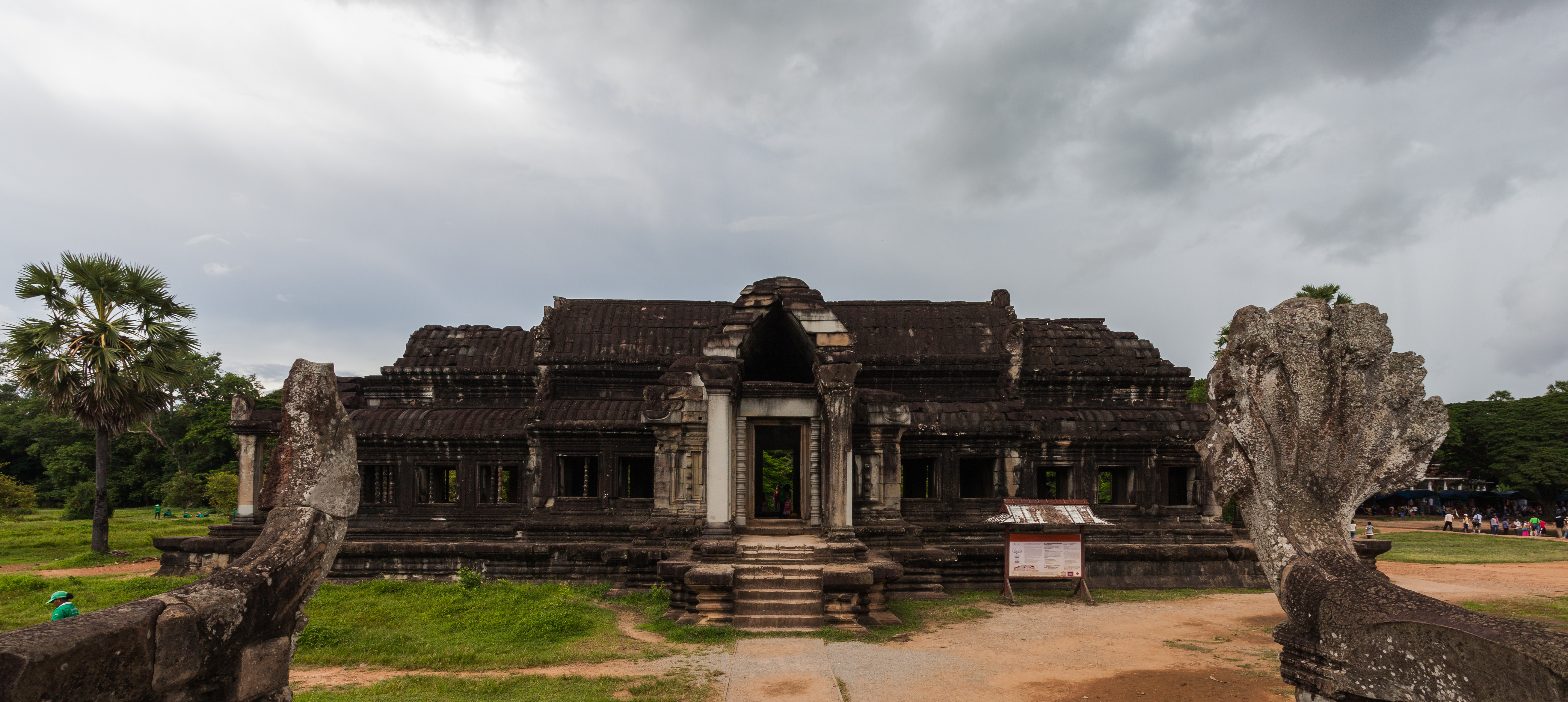 Angkor Wat, Cambodia